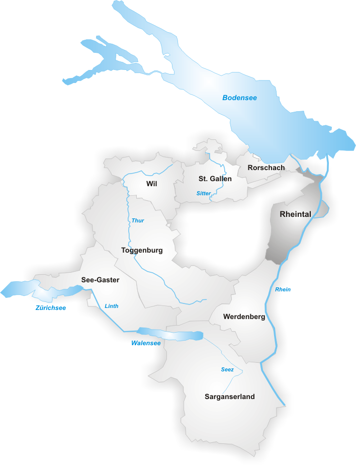 District Rheintal